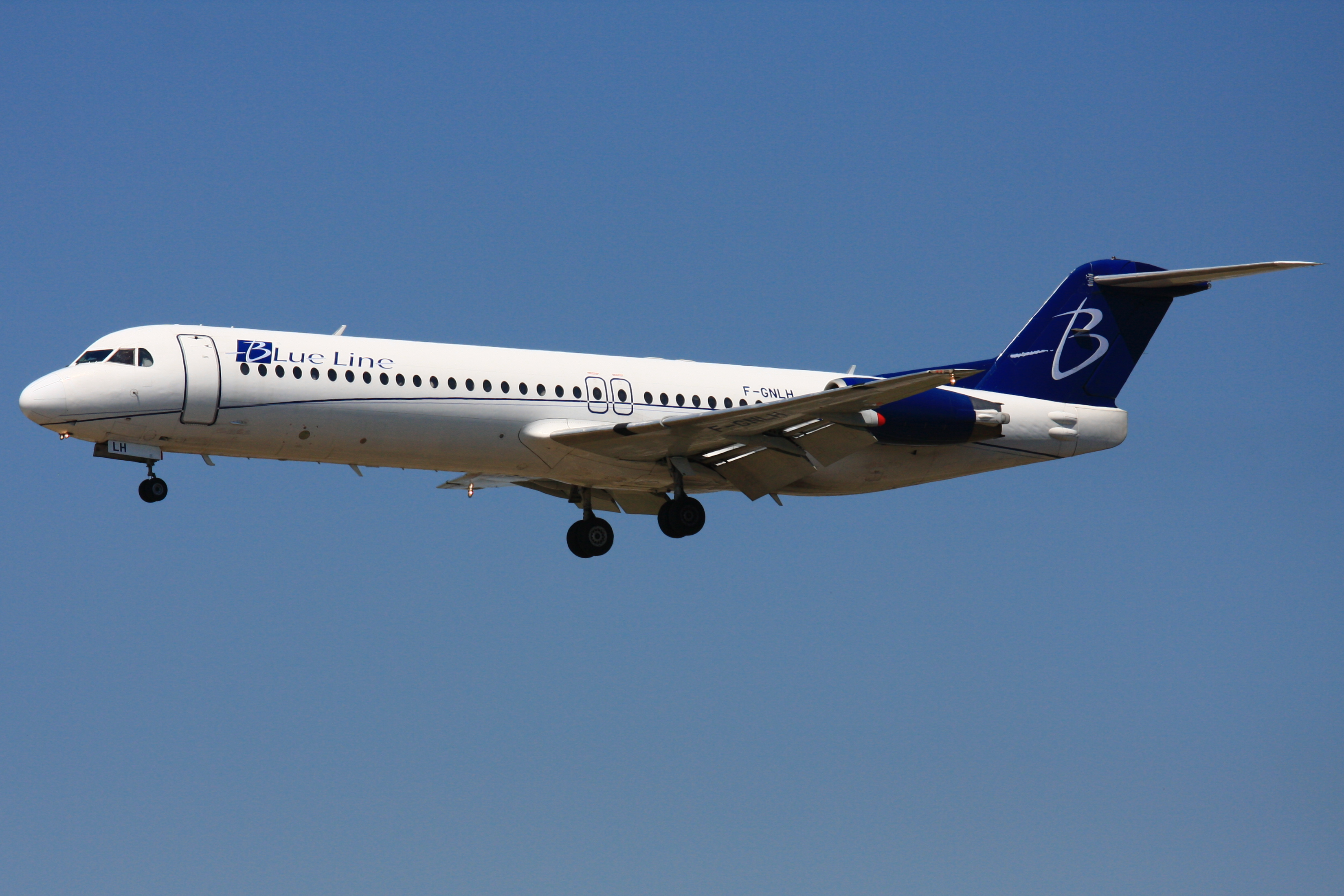 A Fokker 100 of Blue Line landing at Frankfurt Airport